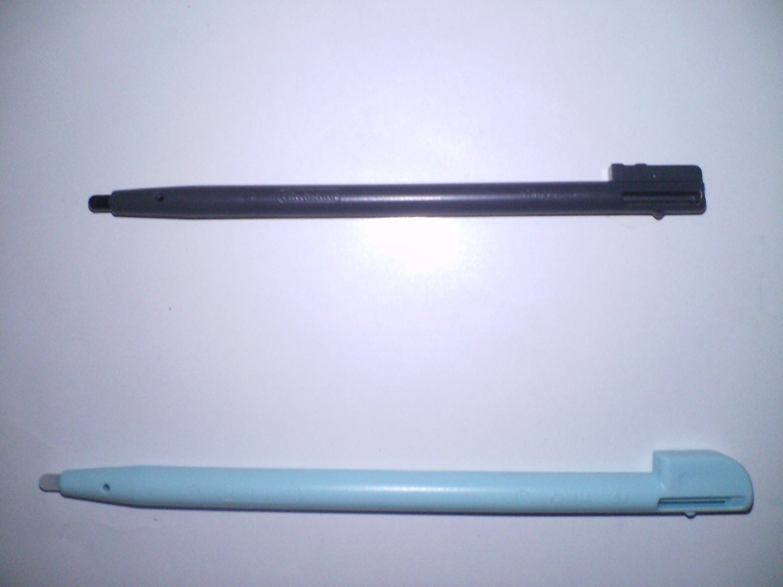 Touch-Pen compare between Nintendo DS and Nintendo DS Lite